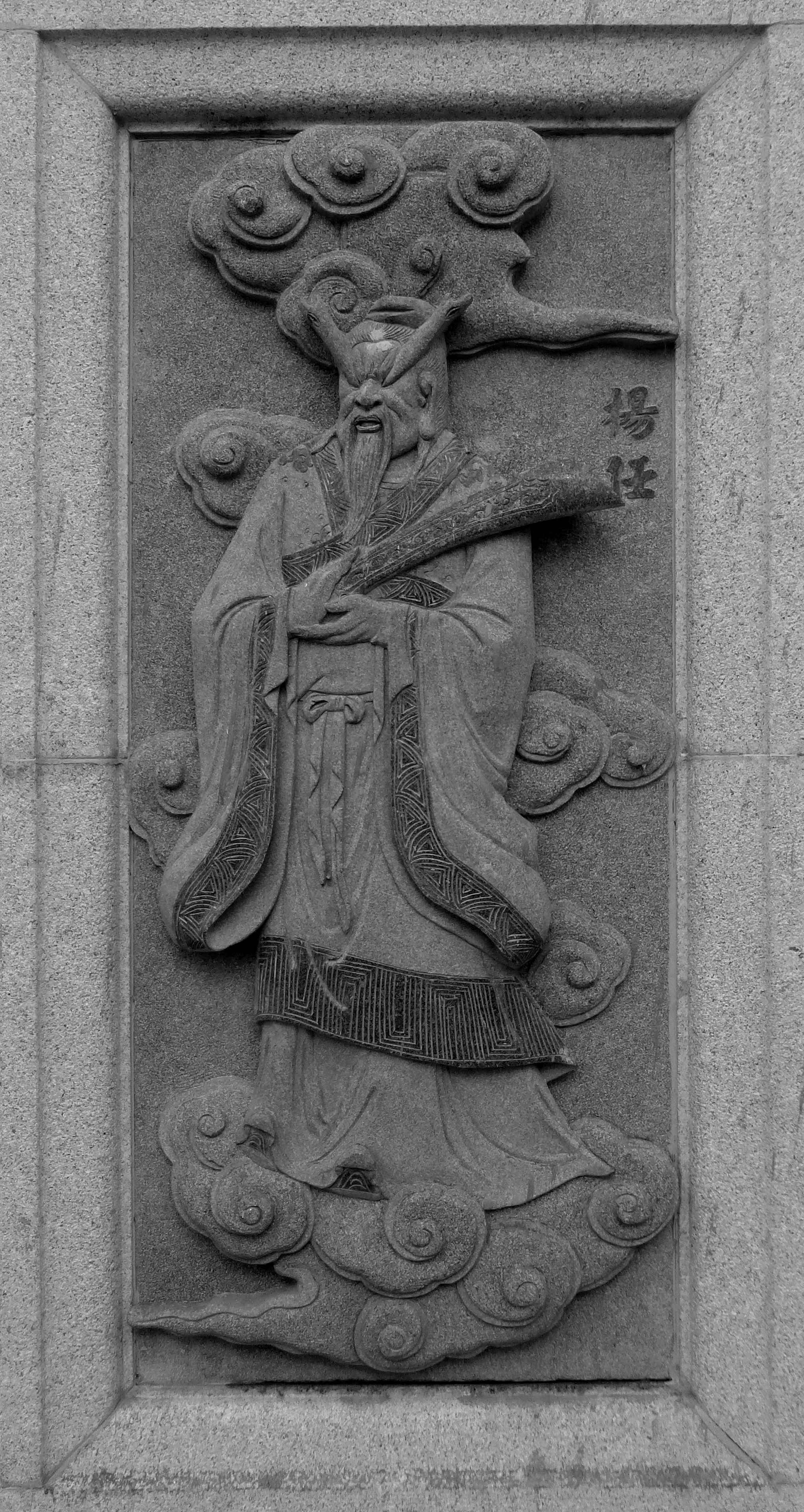 076 Yang Ren, Investiture of the Gods at Ping Sien Si, Pasir Panjang, Perak, Malaysia Photograph from the Ping Sien Si Temple in Perak, Malaysia taken by Anandajoti.